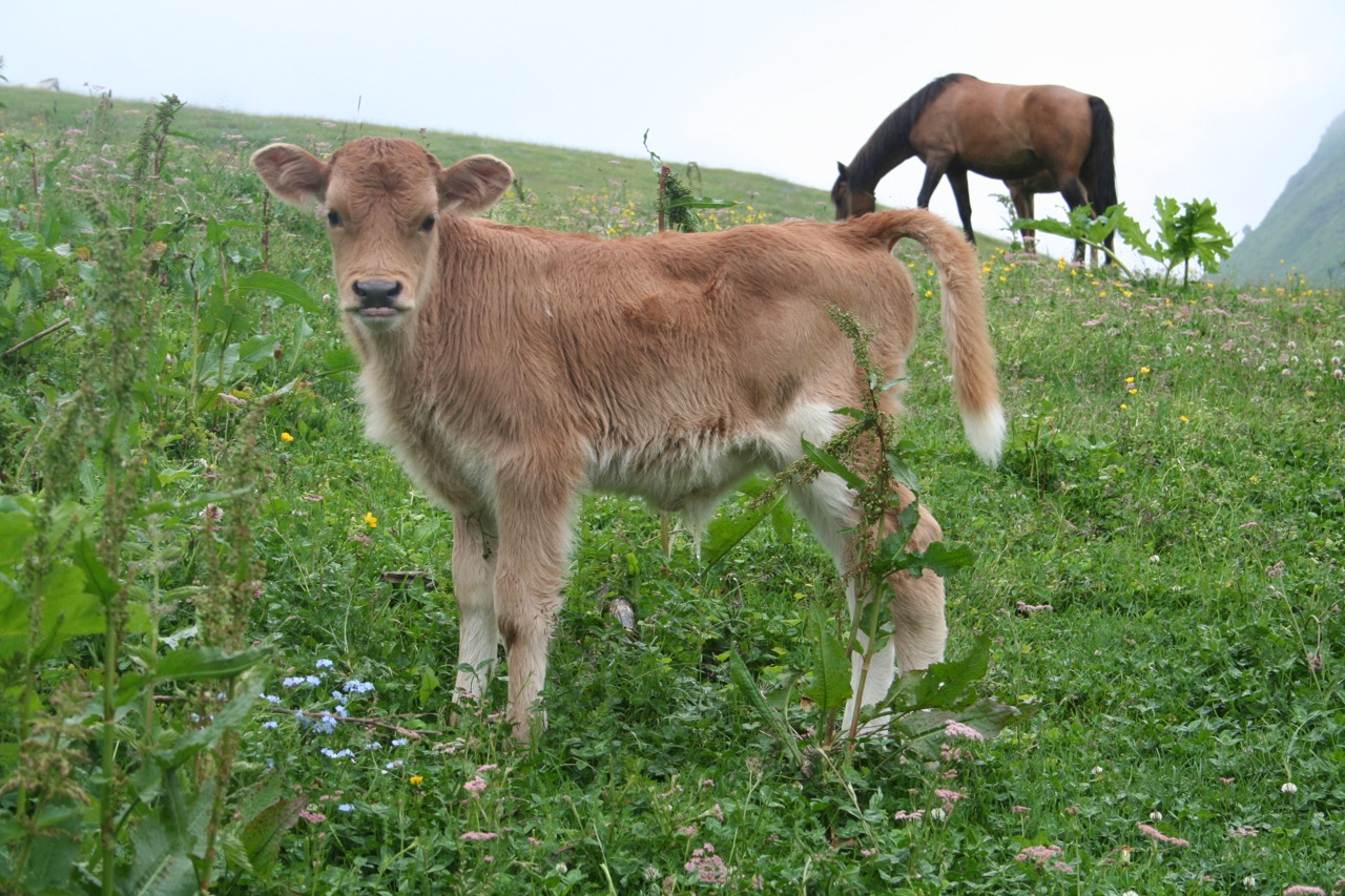 Calf facing dummy tourist in village Juta, Georgia.